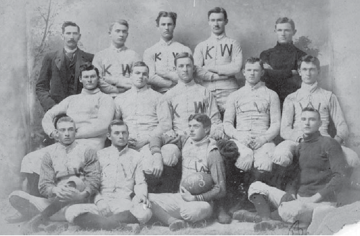 The 1893 Kansas Wesleyan Football team pose for a picture.